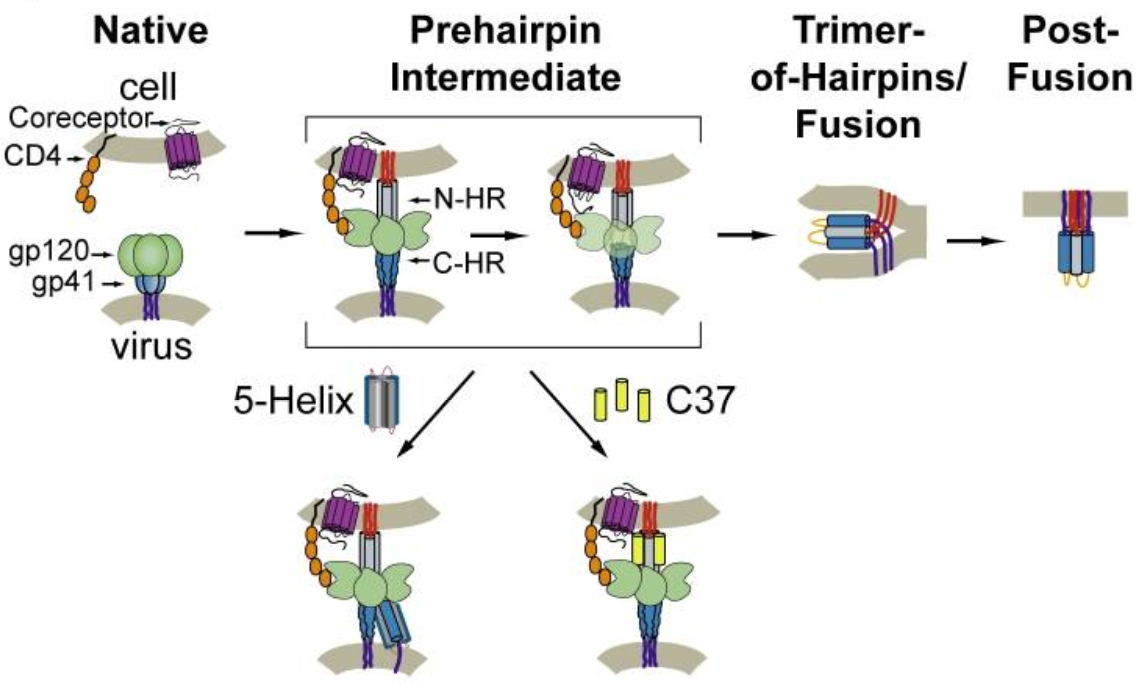 An illustration of HIV entry mechanism and two entry inhibitions' mechanism of action (MOA). 中文（中国大陆）: HIV进入细胞的模式简图，包含对两种融合抑制剂作用机制的说明。